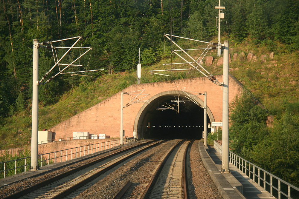 North portal to the Schönrain Tunnel